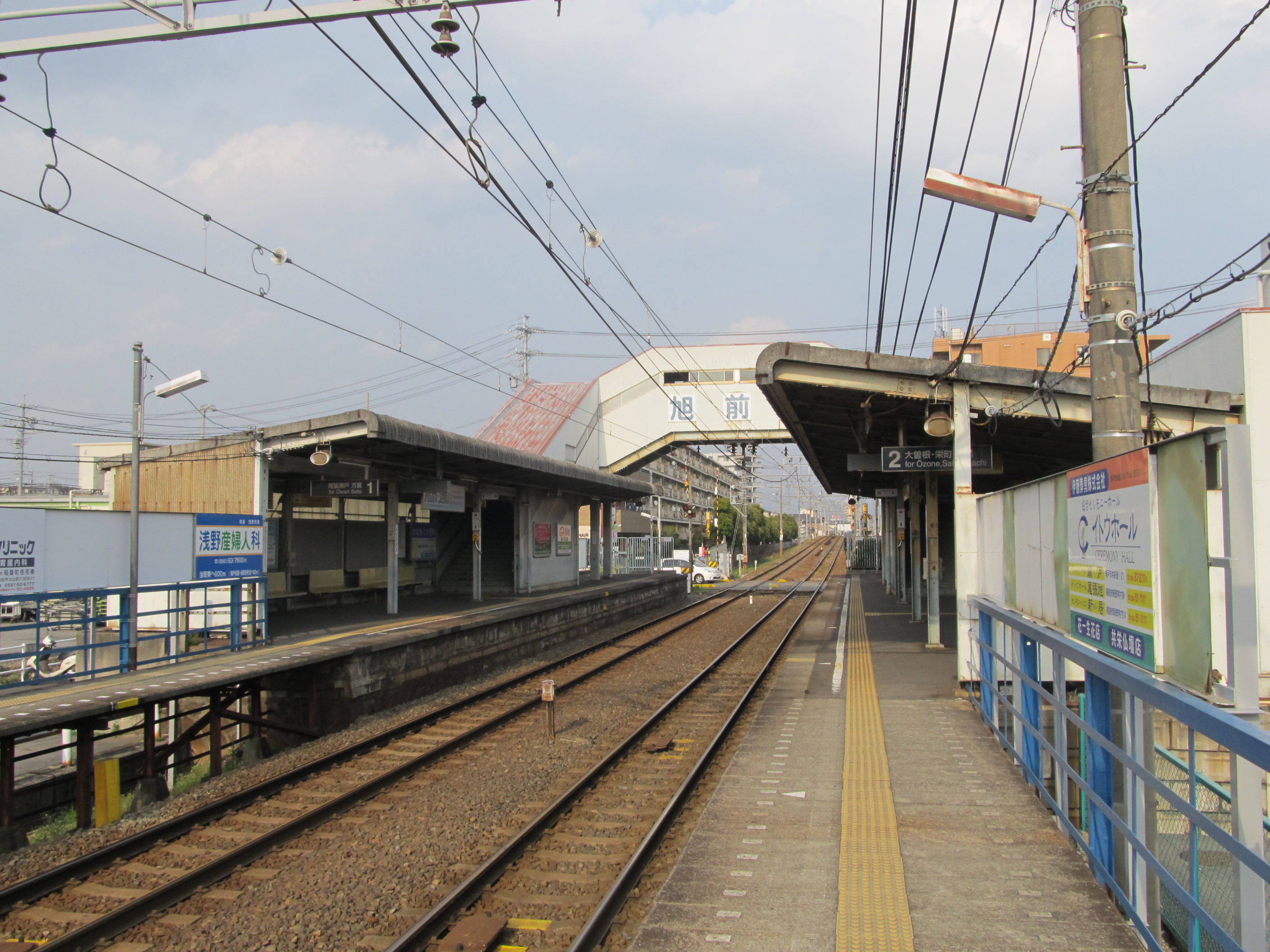 Nagoya Railroad Seto Line Asahi-mae Station Platform